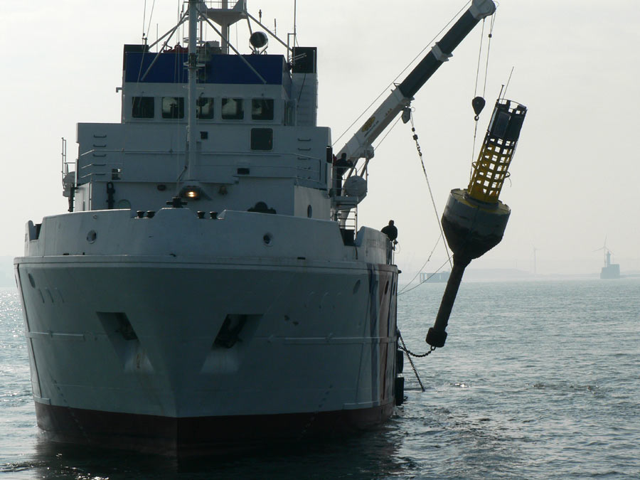 The buoy tender Gascogne during its sea trails.